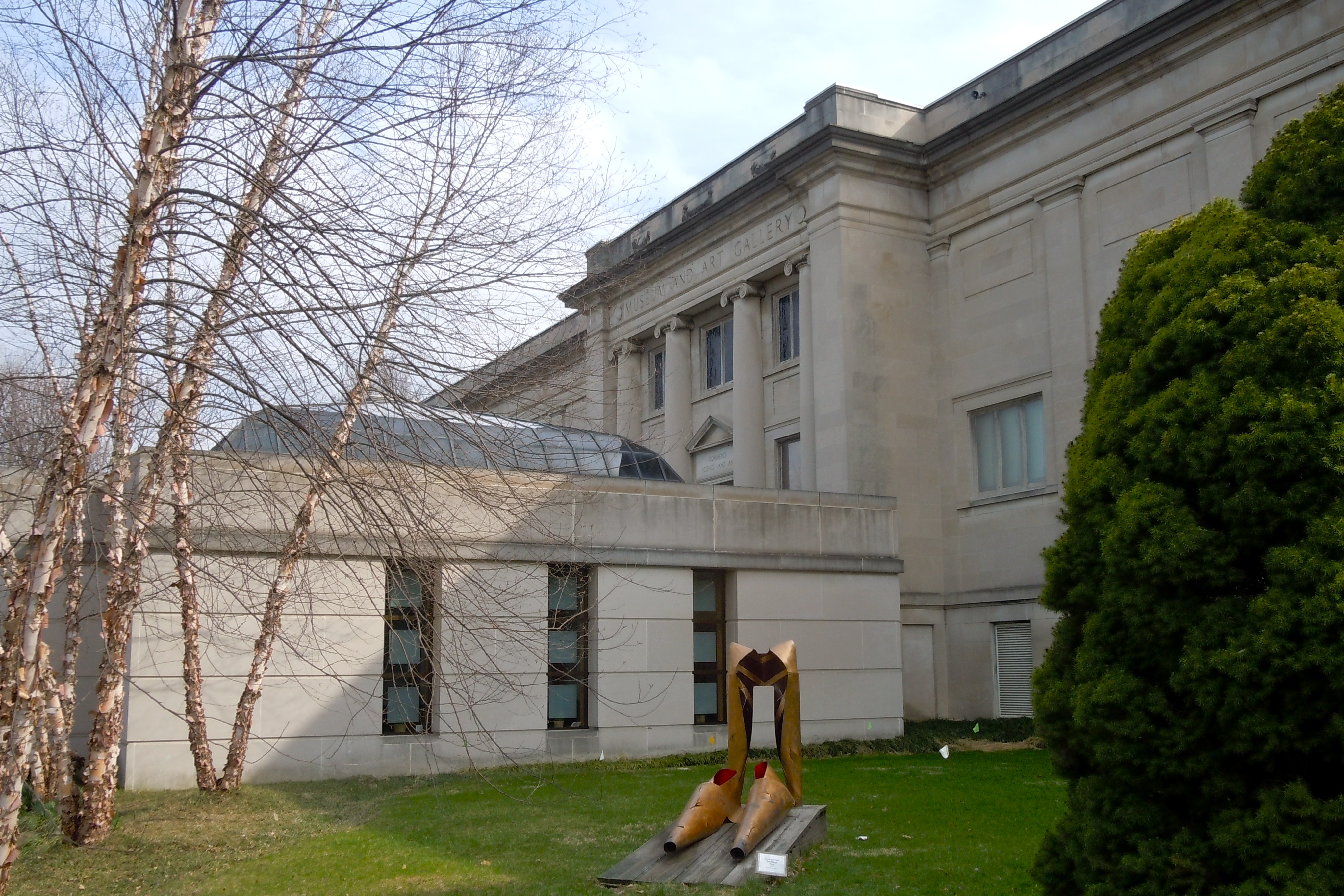 Reading Art Museum in West Reading, Pennsylvania